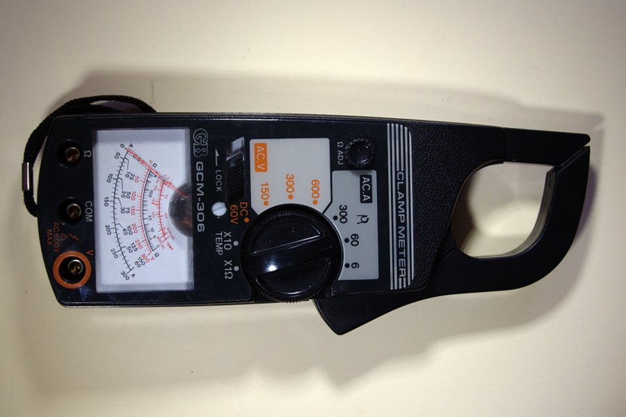 A clamp-on AC ammeter with full scale deflection of 6A, 60A and 300A.